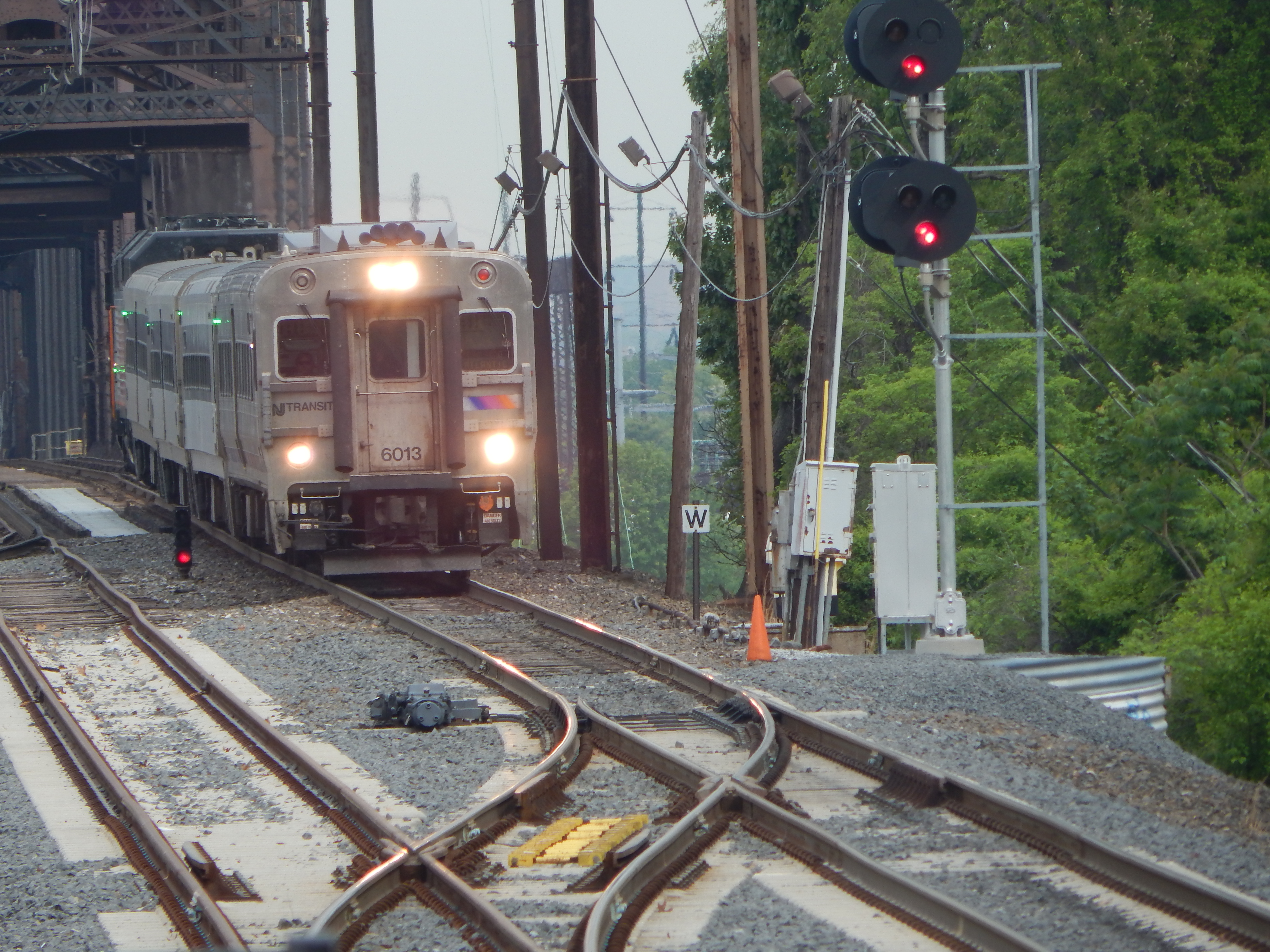 NJT 6013 leads an Atlantic City Line train east off the Delair Bridge in May 2015. The crossover was installed as part of the Pennsauken Transit Center project.